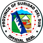 Provincial seal of Surigao del Sur, Philippines.